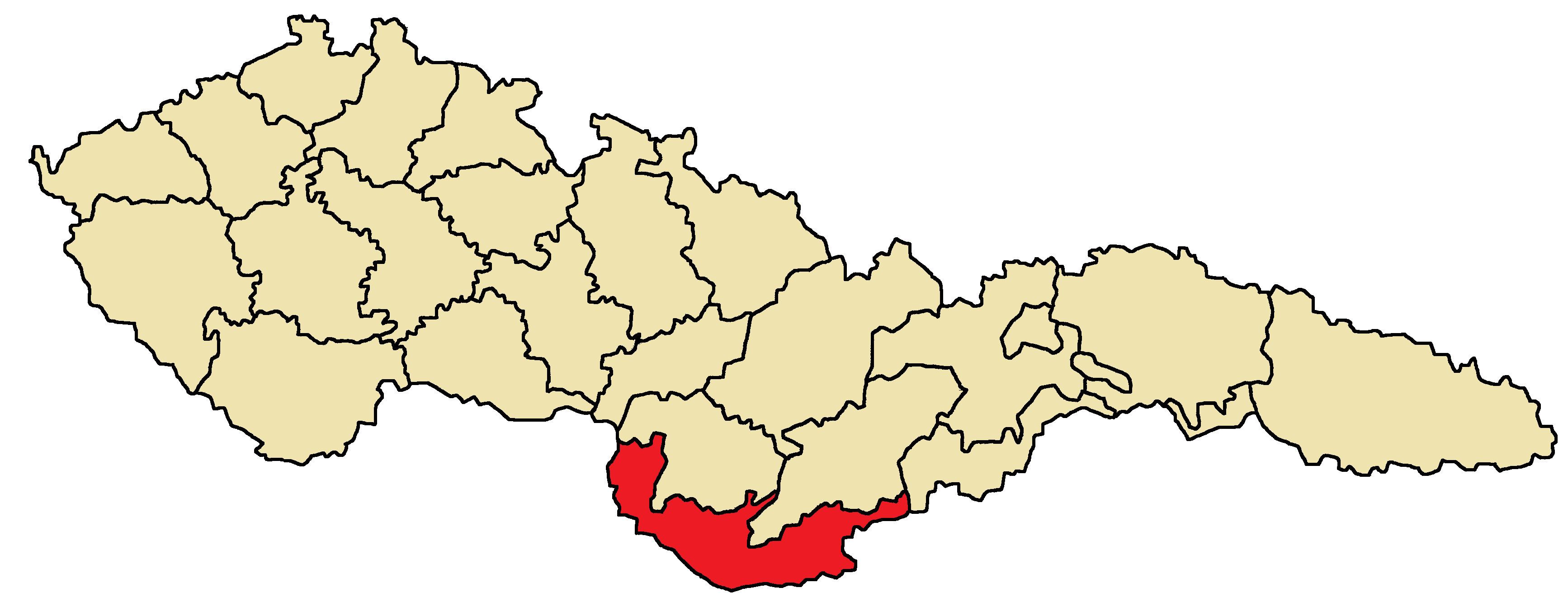 Electoral District used in 1925, 1929, 1935 elections for the Chamber of Deputies, Czechoslovakia